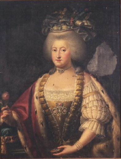 Portrait of Marie Clotilde of France (1759-1802) while Princess of Piedmont